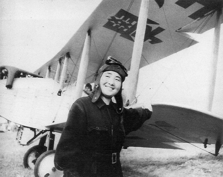 Aviator Nozoki Yae